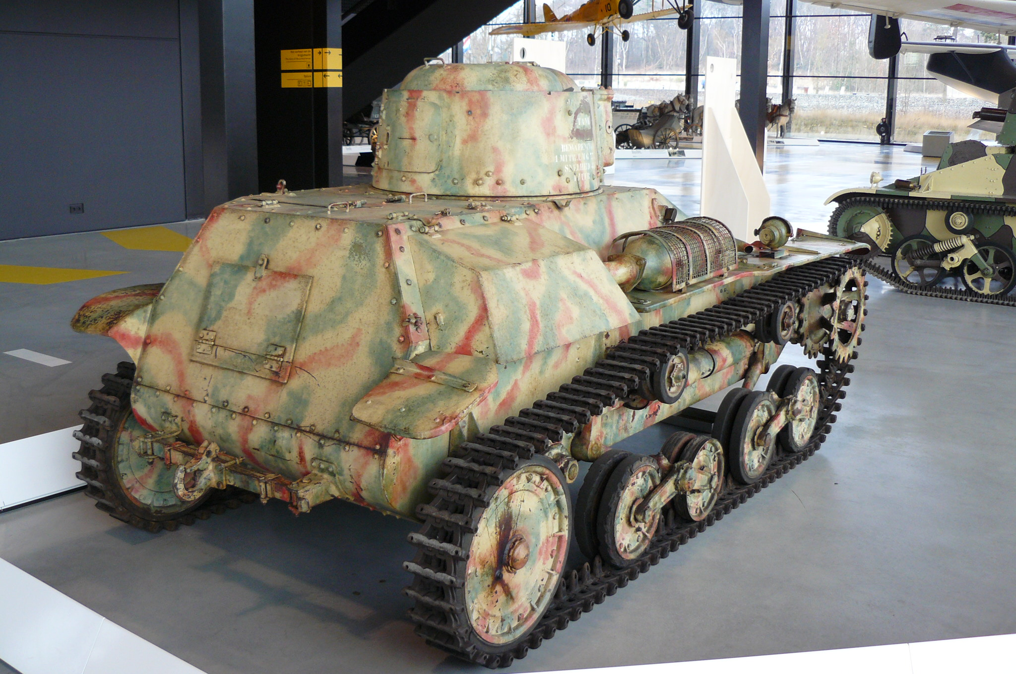 Type 97 Te Ke in the Dutch Nationaal Militair Museum